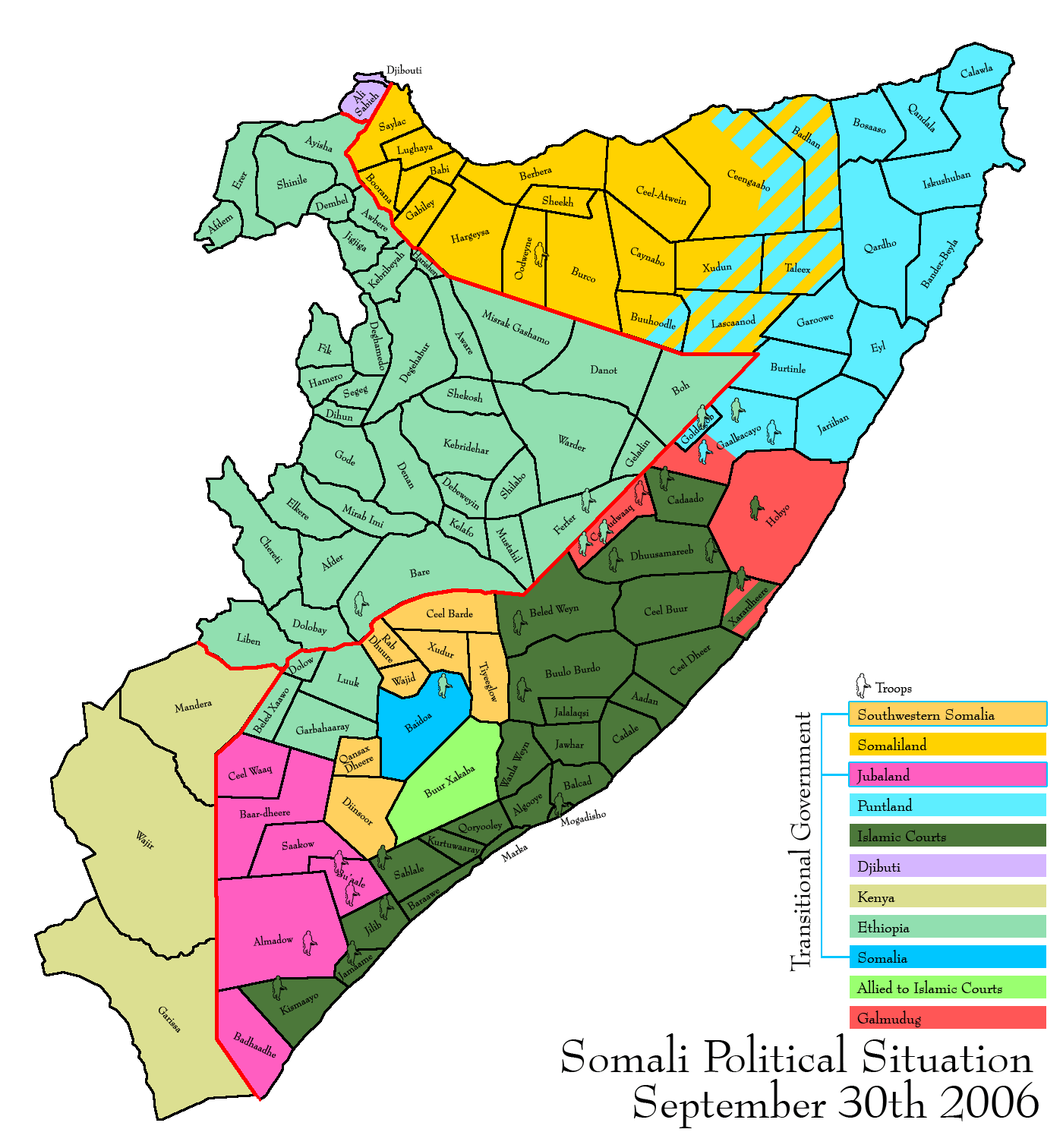 Somali political situation as of September 30, 2006.